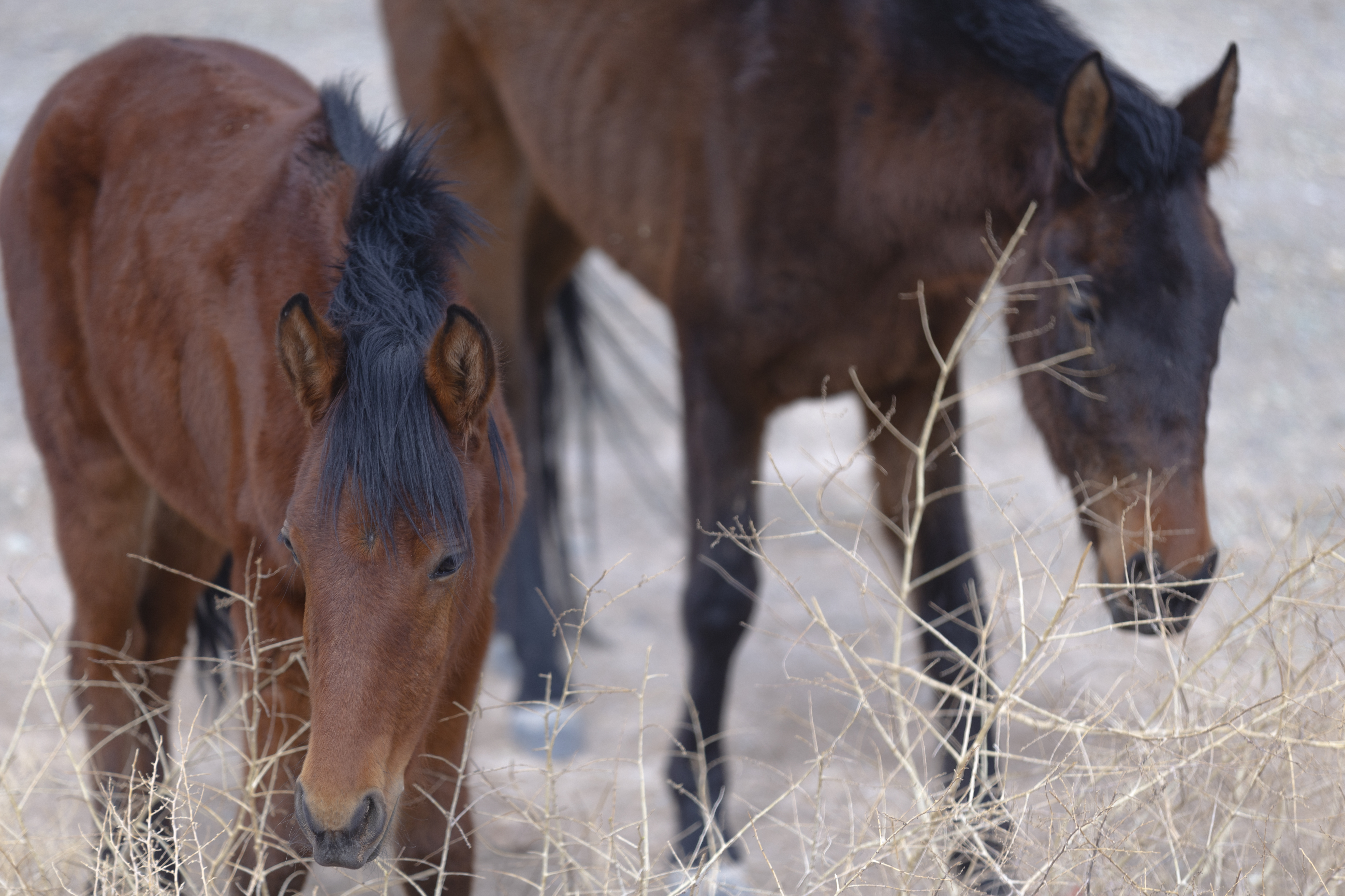 The horse is one of two extant subspecies of Equus ferus. It is an odd-toed ungulate mammal belonging to the taxonomic family Equidae.